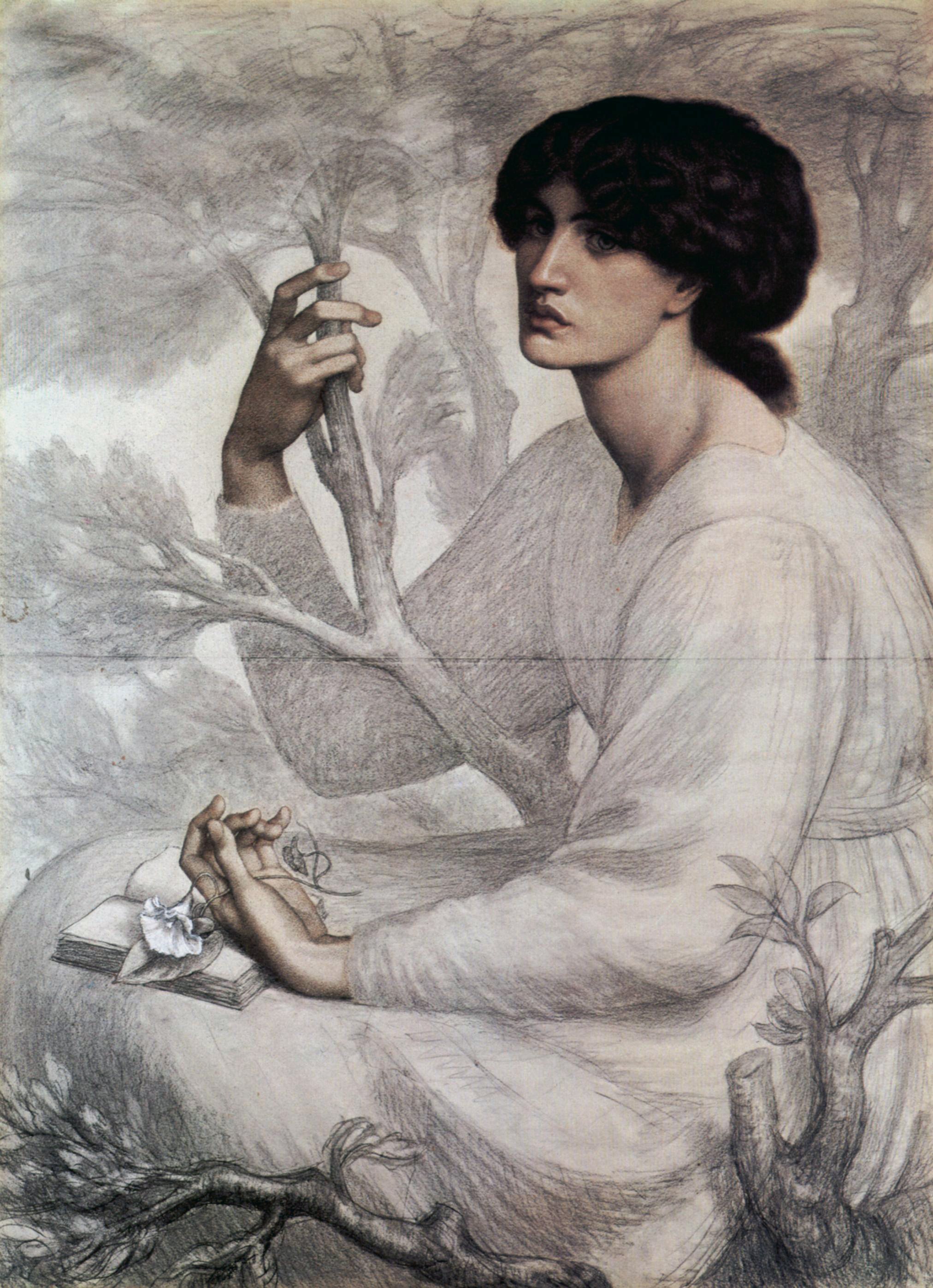 The Day Dream (Jane Morris)